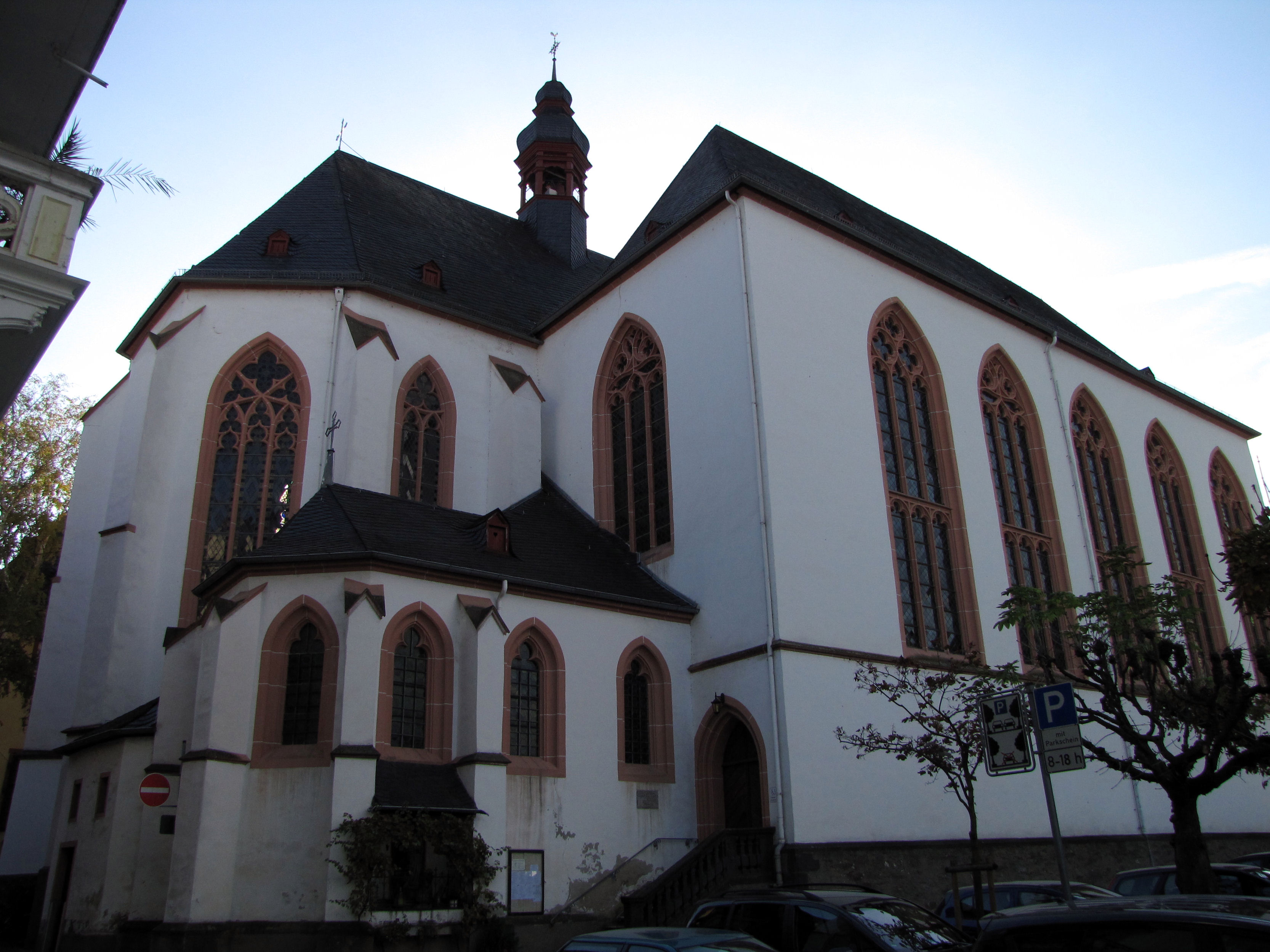 Karmeliterkirche in Boppard